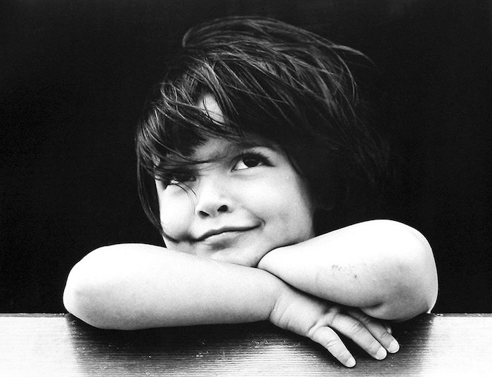 A young girl show us the happiness of just being there.